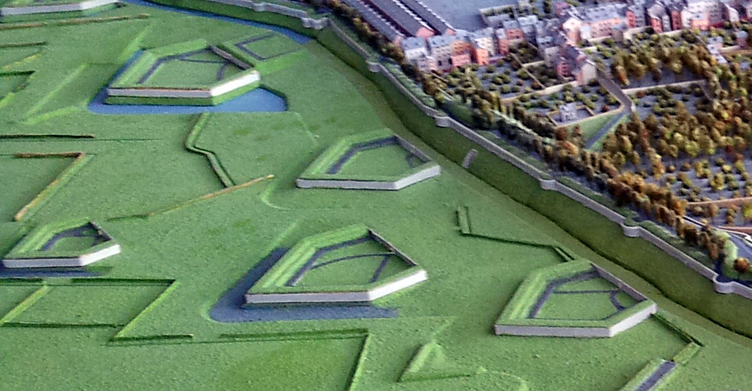 Detail of the Maquette of Maastricht with a view of the fortifications to the west of the city. The scale model was made in 1974-1982, a genuine copy of the 18th-century original made for King Louis XV of France, now in the Palais des Beaux-Arts in Lille).